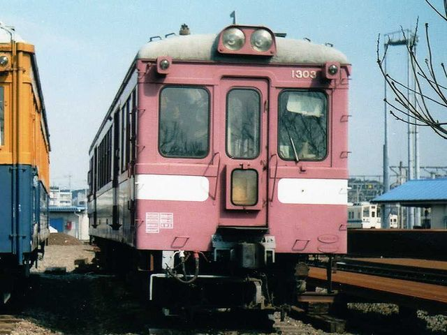 Odakyu Electric Railway Company, EMU Type 1300.